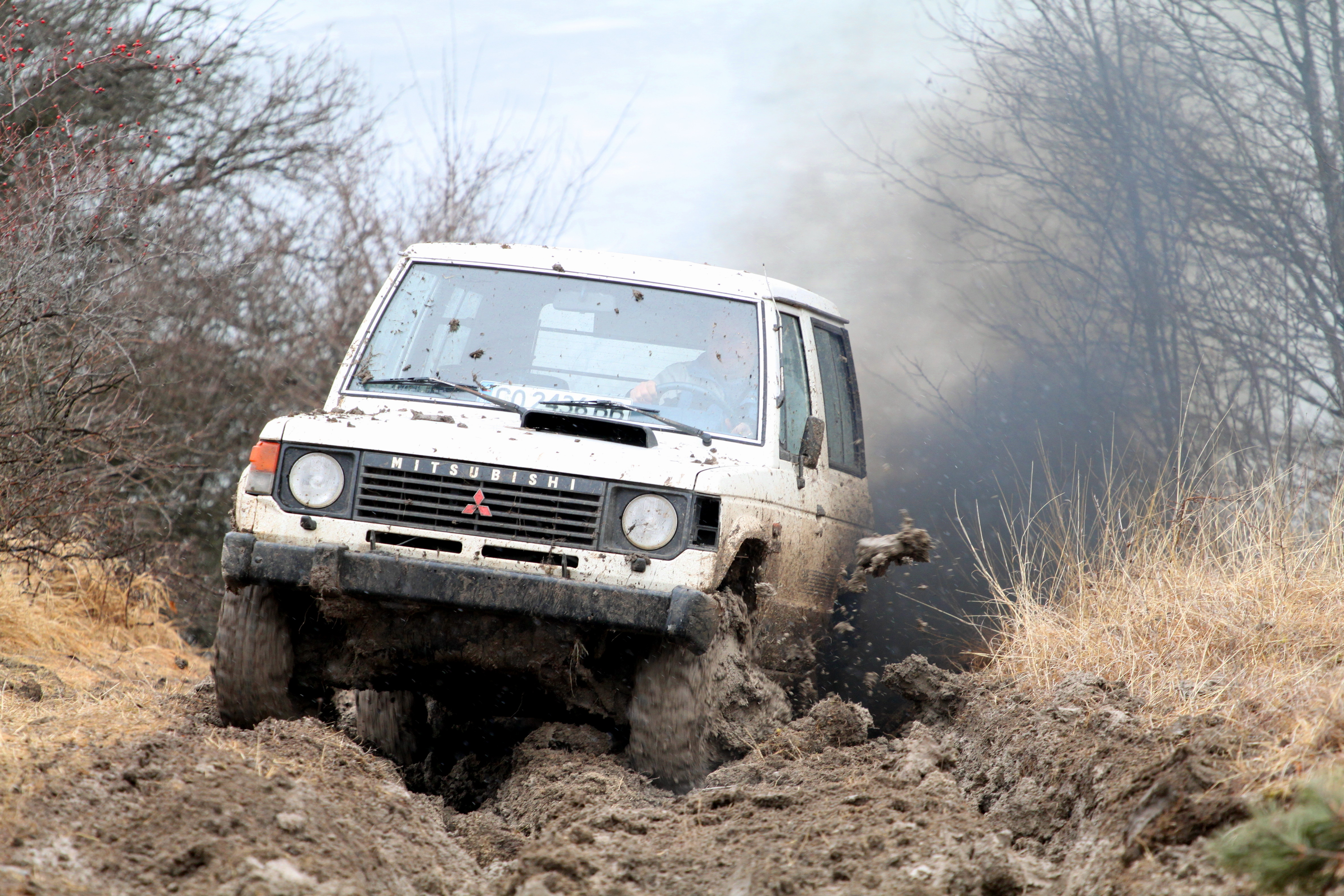 Mitsubishi Pajero in Off-Road, near Slivnitsa, Bulgaria